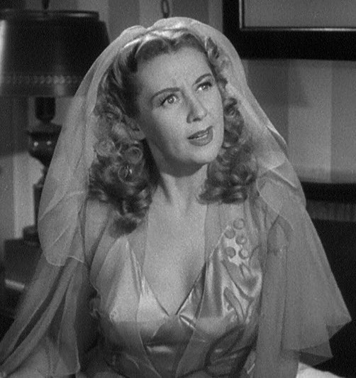 Cropped screenshot of Joan Blondell from the film Topper Returns.